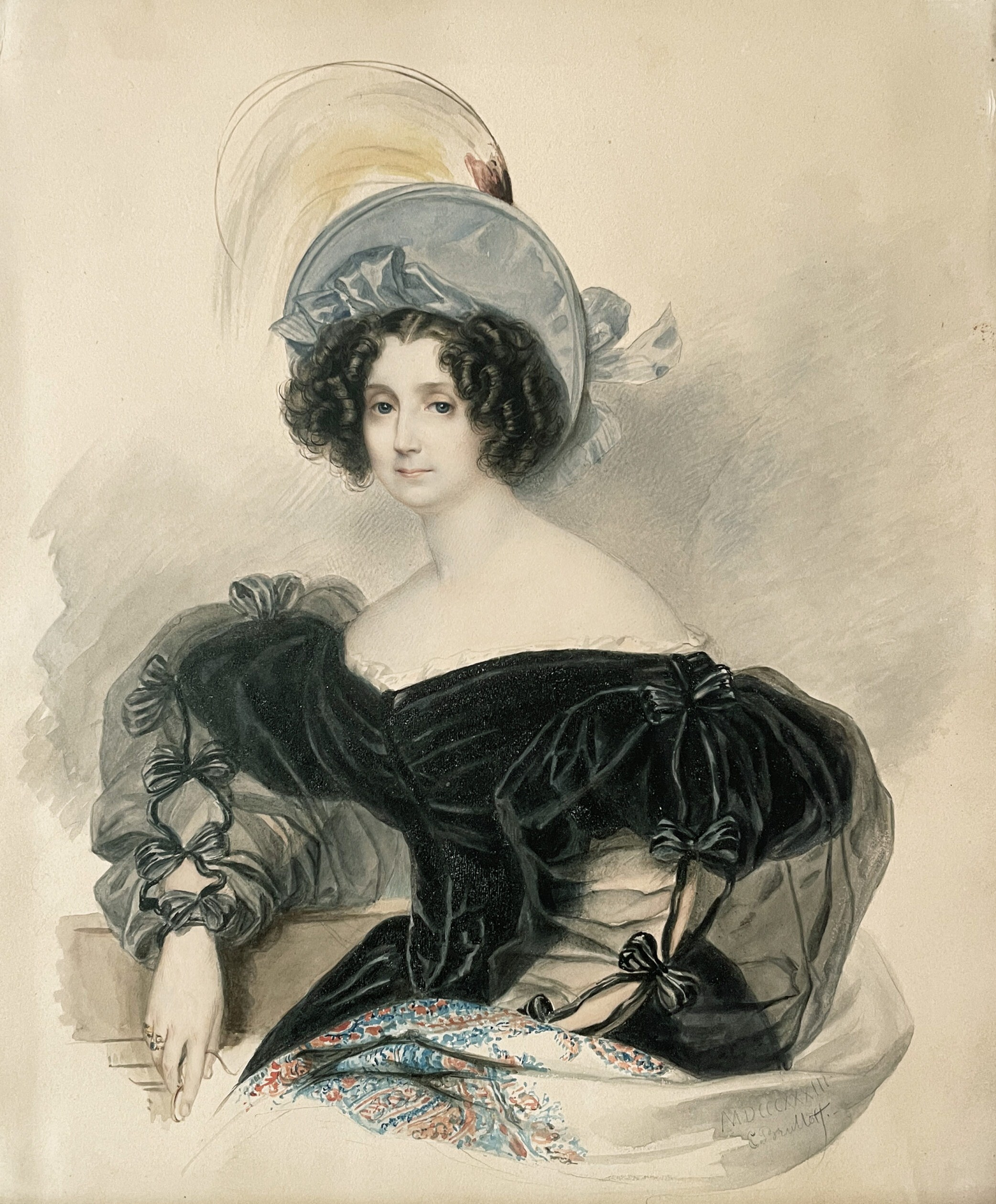 Portrait of Anna Lopuhina (1786-1869)